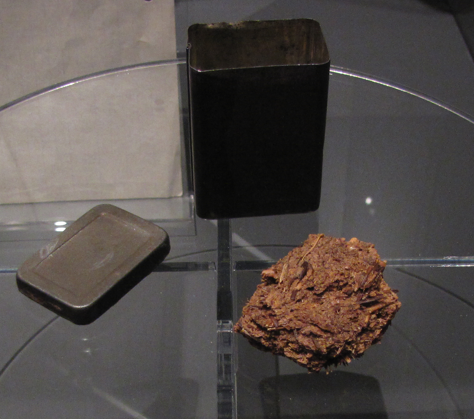 Bread from Hennala prison camp year 1918-1919. Displayed at Museum of Kymenlaakso.